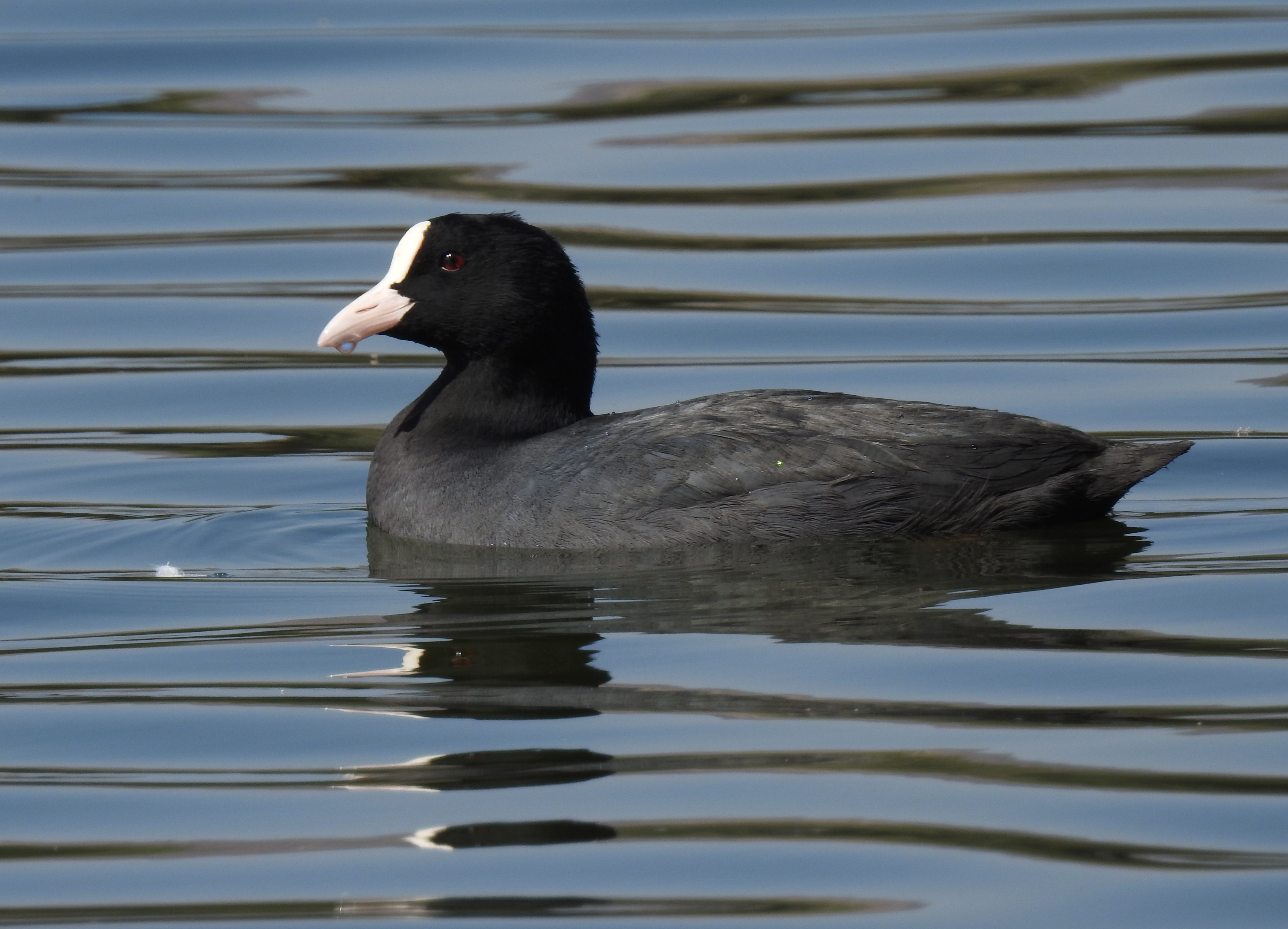 Eurasian or Common Coot Fulica atra. Photo taken in Jaipur, Rajasthan by Dr. Raju Kasambe